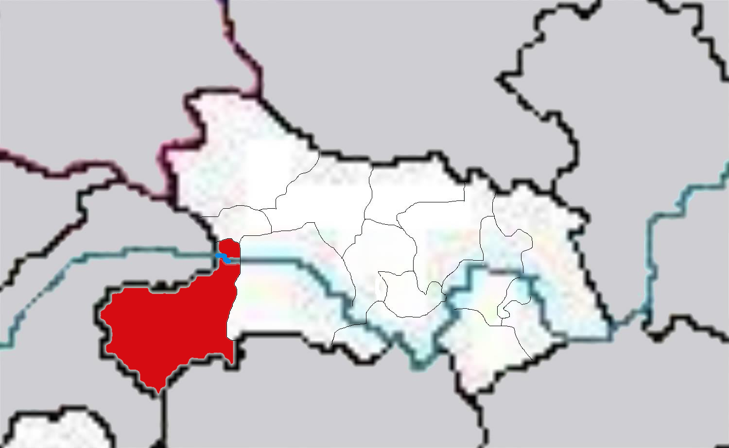 Maps of Hubei Province of China